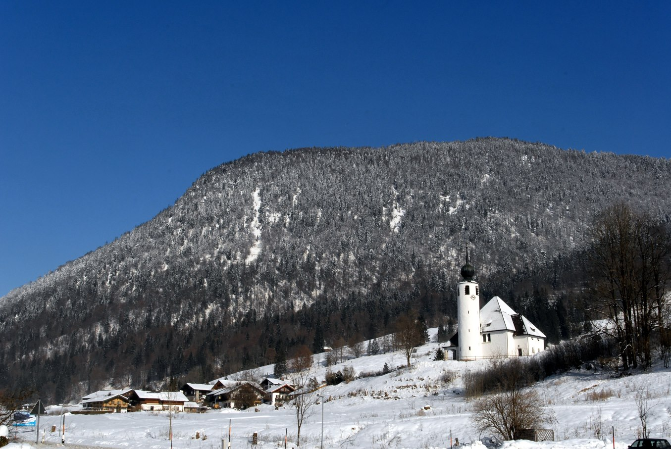 Weißbach an der Alpenstraße with Church St.Vinzenz)